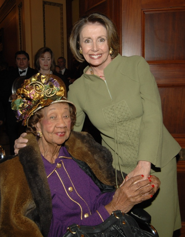 Speaker Nancy Pelosi released the following statement today on the passing of civil rights leader Dr. Dorothy I. Height: “Men and women of every race and faith are heirs to the work, passion, and legacy of Dr. Dorothy I. Height. From her earliest days as an activist, she fought for equality under the law for every American - recognizing that the battle for civil rights extended to African Americans, women, the disabled and anyone denied the chance to succeed because of who they are. For four decades, she stood at the helm of the National Council of Negro Women, continuing the struggle for an America that lived up to its ideals of liberty and opportunity, regardless of race or gender. “In every fight, Dr. Height turned the tides of history toward progress. Today, we live in an America that Dorothy Height helped to shape – a nation defined by equality, shaped by civil rights, and driven by the pursuit of justice for all. “Our thoughts and prayers are with the family, friends, and loved ones of Dorothy Height – the mother of the civil rights movement and a champion for social justice. Her loss is felt by all who knew her, who respected her, and who followed in her footsteps. The nation mourns the passing of this giant of American history. We will all deeply miss her commitment, compassion, and devotion to a better future.”